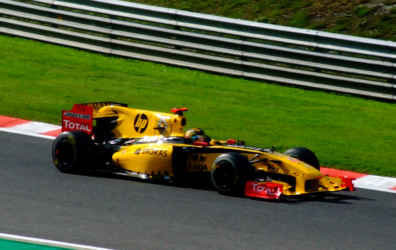 Robert Kubica, Renault R30, Pouhon, Third Practice, 2010 Belgian Grand Prix